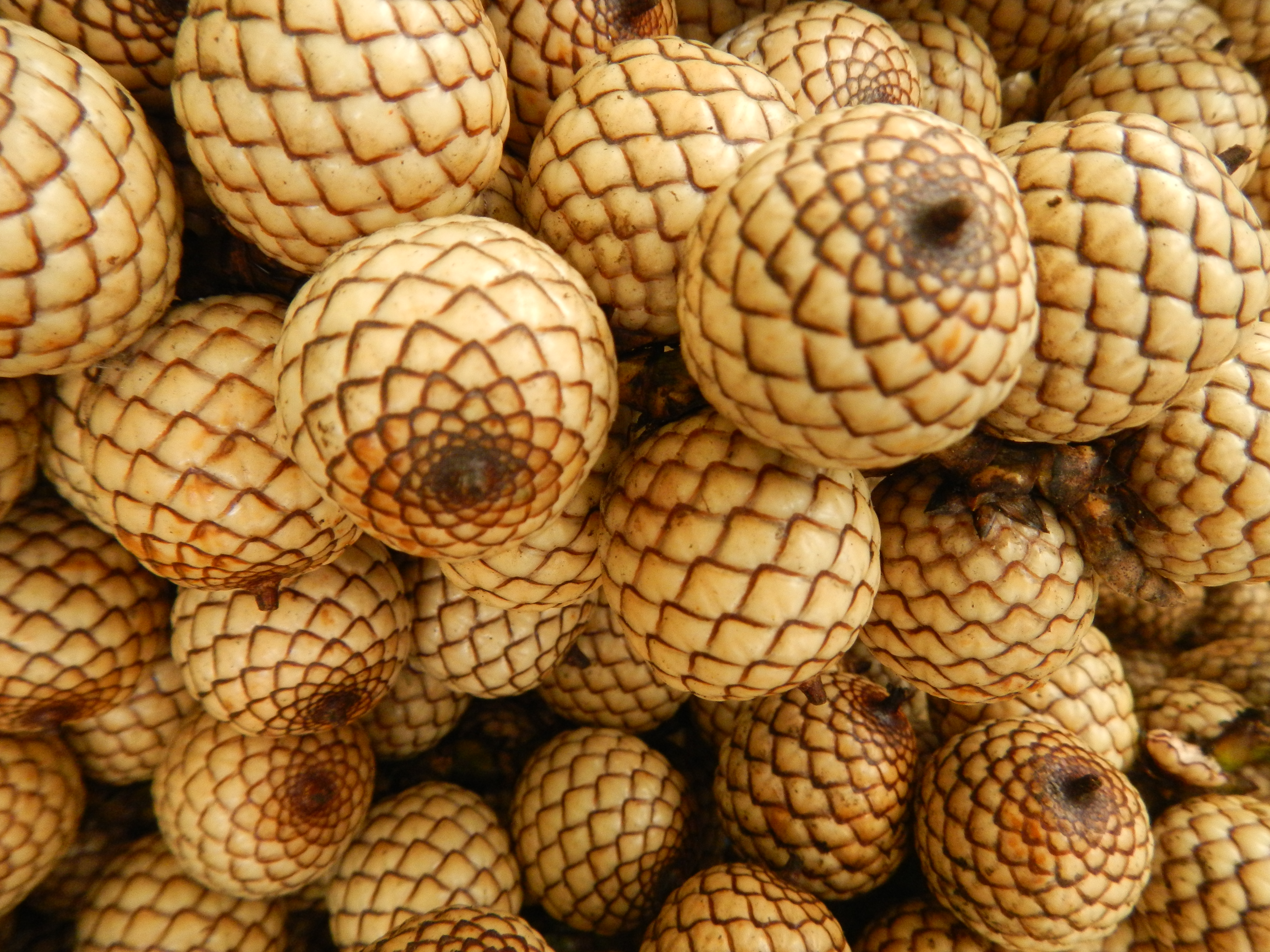 UploadWizard photos -- (General description, 3-dimension angle by angle photography of this town, church & landmarks) -- District Highway Boundary S00852LZ K0209+ 896 Agribank, Pamilihang Bayan ng Santa Fe (Public market), Balete Pass Tourism Complex (is composed of a) Chinese Shrine, b) Japanese Shrine and Dalton Pass Pass[1] with its Dalton Pass View Deck) in --- Barangay Poblacion, Santa Fe, Nueva Vizcaya [2] [3] located along Daang Maharlika or Cagayan Valley Road or Pan-Philippine Highway[4] the only passageway that links the entire North East Luzon to Metro Manila and Central Luzon. Cagayan Valley [5]).